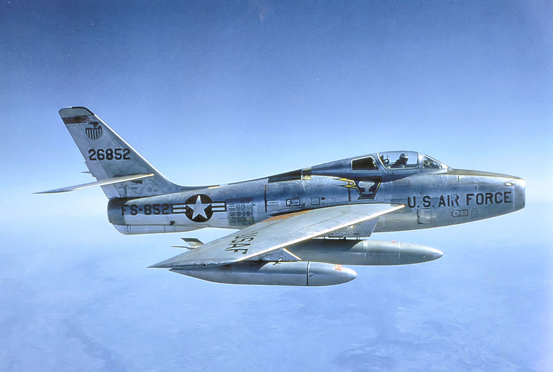 A U.S. Air Force Republic F-84F-50-RE Thunderstreak (s/n 52-6852) of the 91st Fighter-Bomber Squadron, RAF Bentwaters UK.